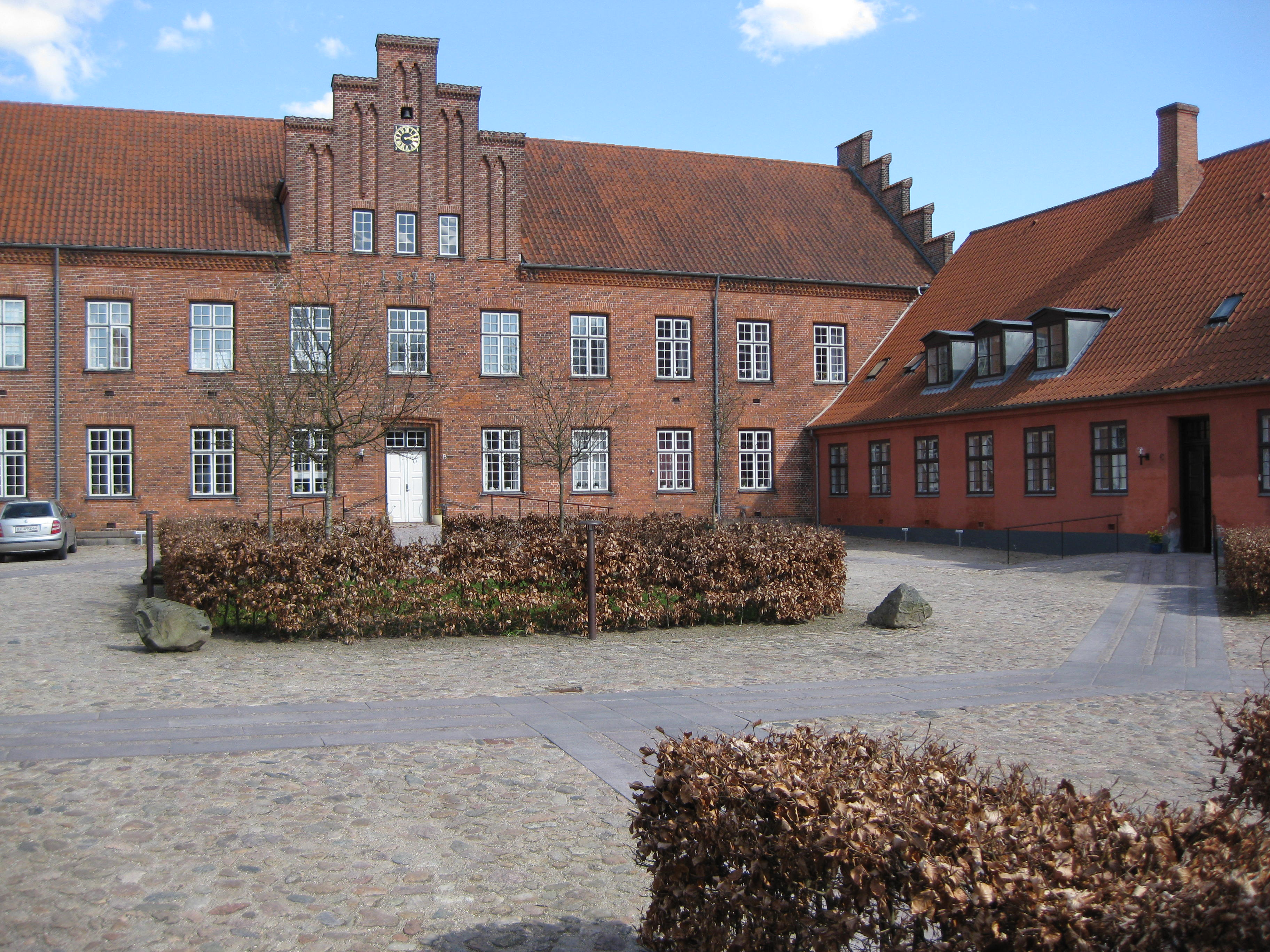 The courtyard of the monastery "Slagelse Kloster" in Slagelse. The town is located in West Zealand, Denmark.